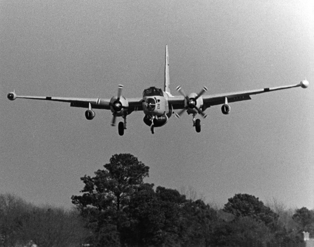 A U.S. Navy Lockheed SP-2H Neptune from Patrol Squadron 23 (VP-23) "Seahawks" prepares to land at Naval Air Station Norfolk, Virgina (USA), after a flight from its last operational home, Naval Air Station Brunswick, Maine (USA). VP-23 was the last remaining active duty patrol squadron to fly the SP-2H, retiring its last Neptune on 20 February 1970.